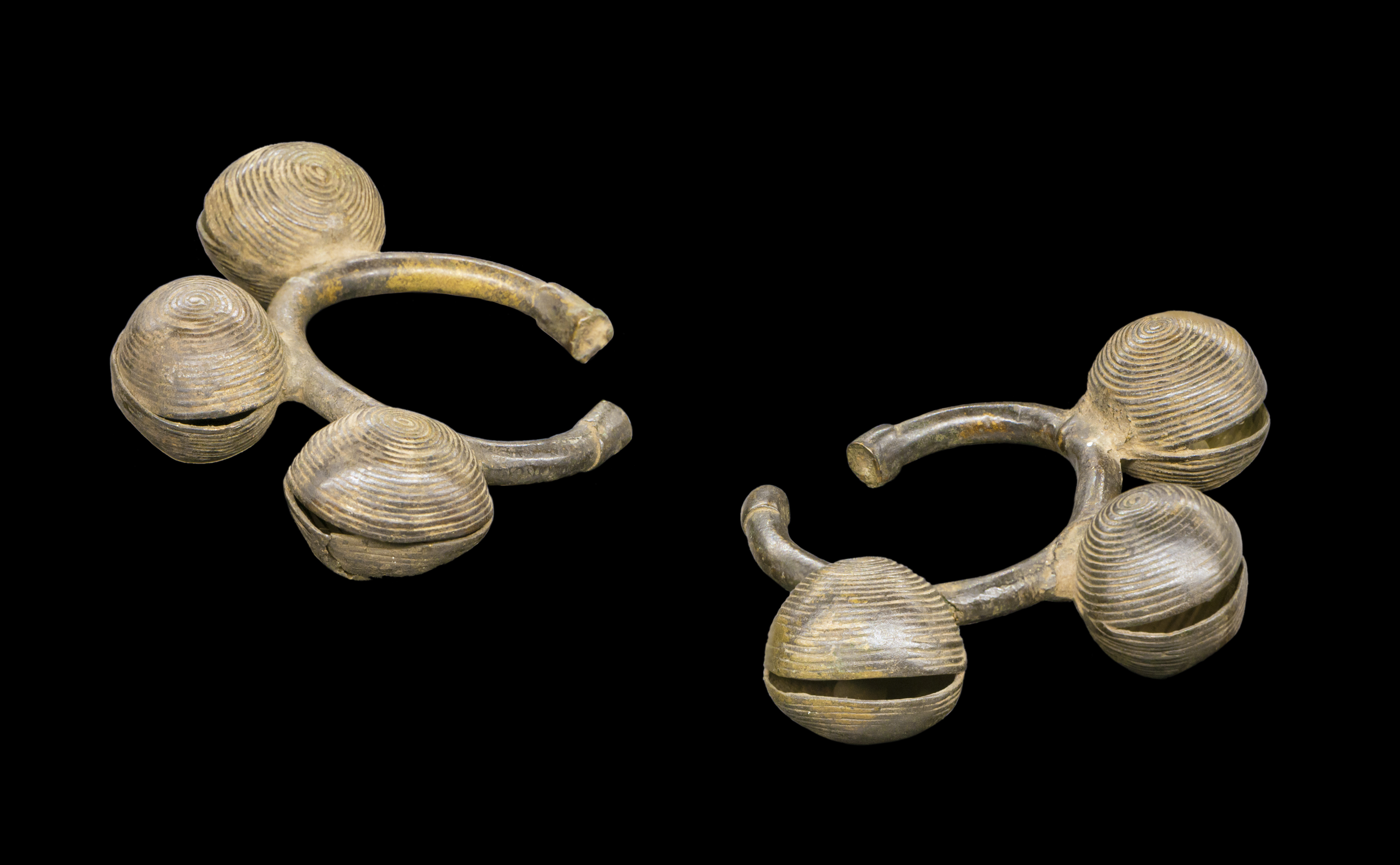 Ankle bracelets - Ivory Coast These bracelets were worn by noble women, sometimes by traditional healers, mid-twentieth century. The bells had a musical function but also aesthetic and ostentatious. Their size and number indicated the social status of the person. Bracelets three or five bells should belong to unmarried girls. Former collection of Marshal Gallieni. Donated to the Museum of Toulouse in 1883 Population : Dan art